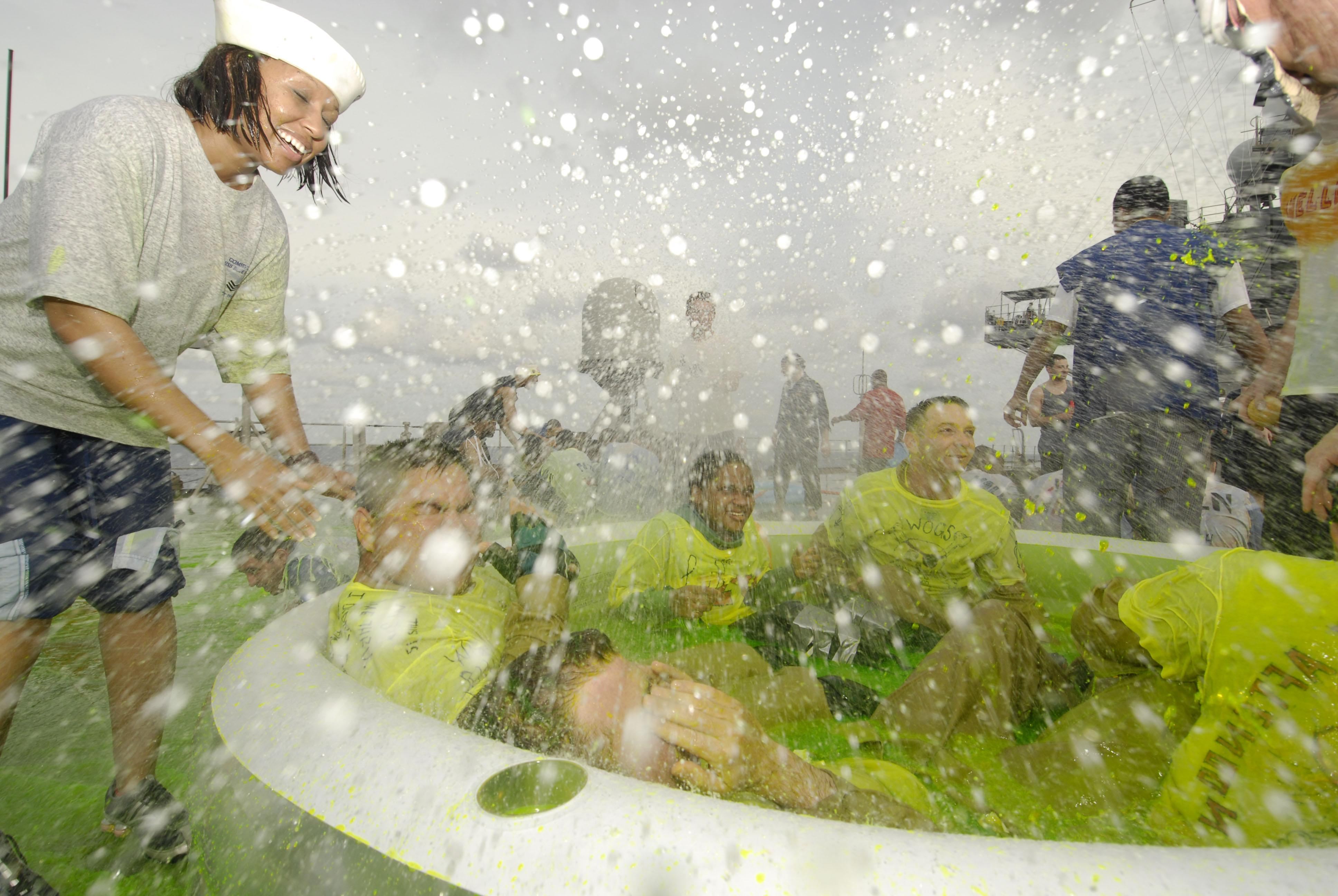 U.S. Sailors and Marines participate in a crossing the line ceremony aboard USS Blue Ridge (LCC 19) as the ship passes the equator May 16, 2008. It has been a long naval tradition to initiate pollywogs, Sailors who have never crossed the Equator, into the Kingdom of Neptune, the legendary god of the seas, upon their first crossing of the Equator. (U.S. Navy photo by Chief Mass Communication Specialist Scott Curtis/Released)